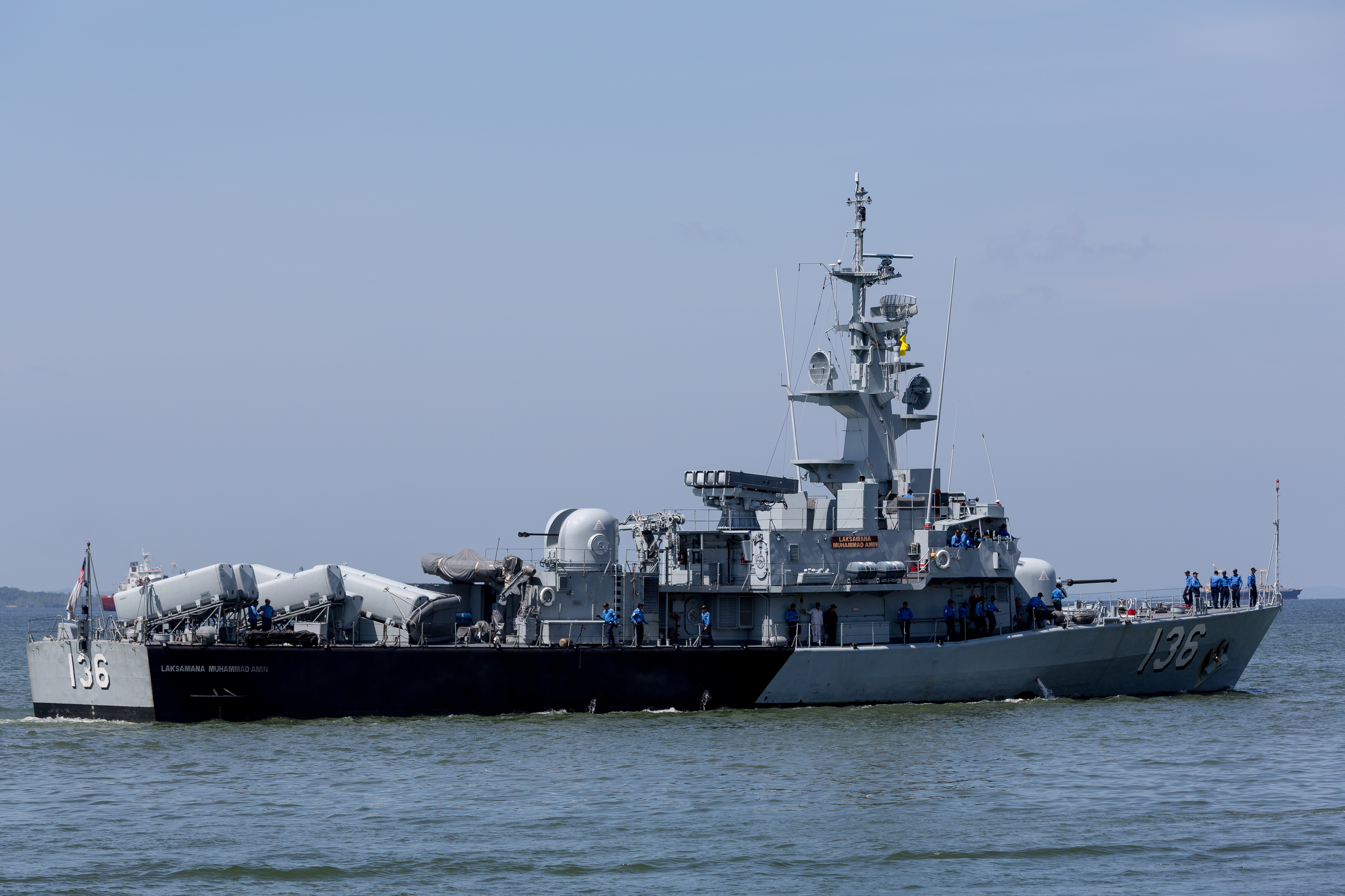 Sandakan, Sabah: The LAKSAMANA MUHAMMAD AMIN, part of the ESS forces, cruising in Sandakan Bay